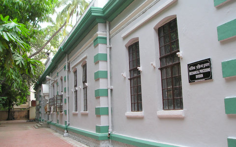 Same building is still today